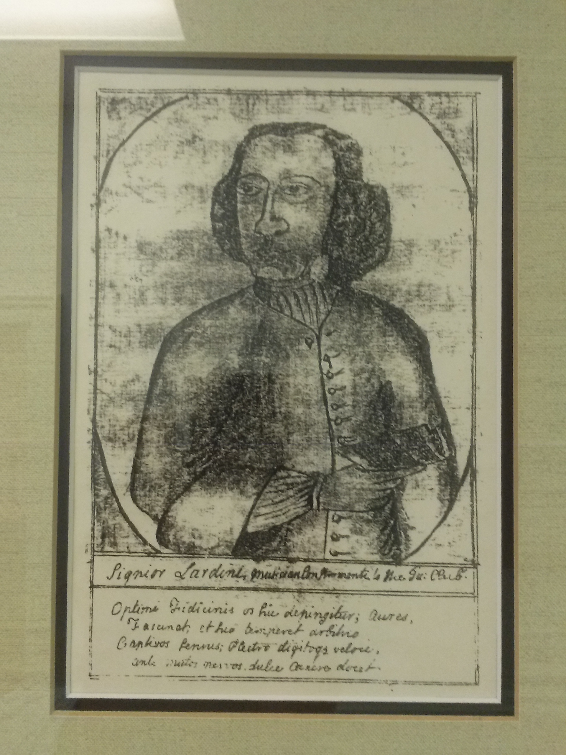 Rev. Thomas Bacon, as posted on wall of All Saints Church, Frederick Maryland